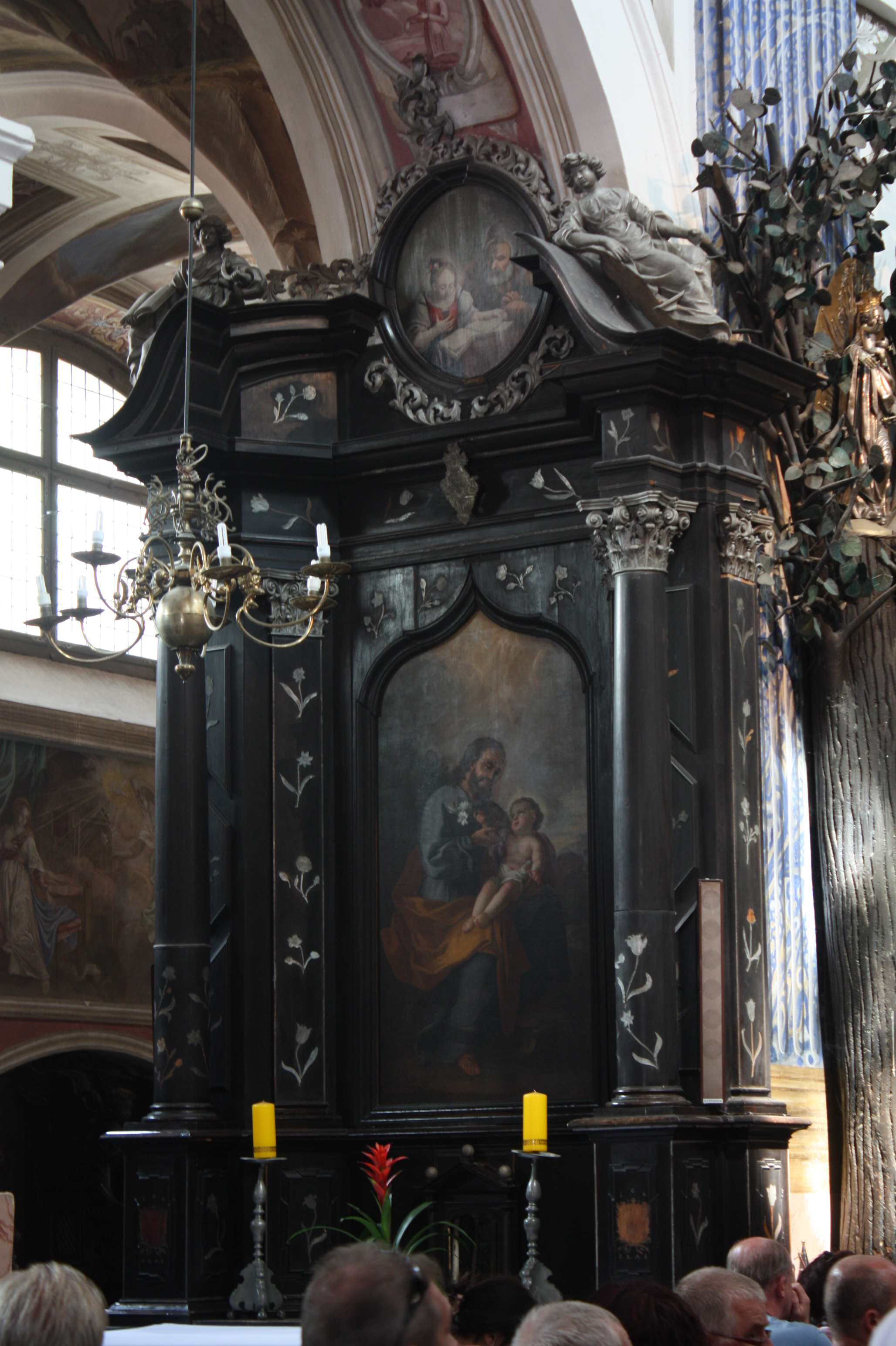 This photo of Warmian-Masurian Voivodeship was taken during Wikiexpedition 2012 set up by Wikimedia Polska Association. You can see all photographs in category Wikiekspedycja 2012. The making of this document was supported by Wikimedia Polska.